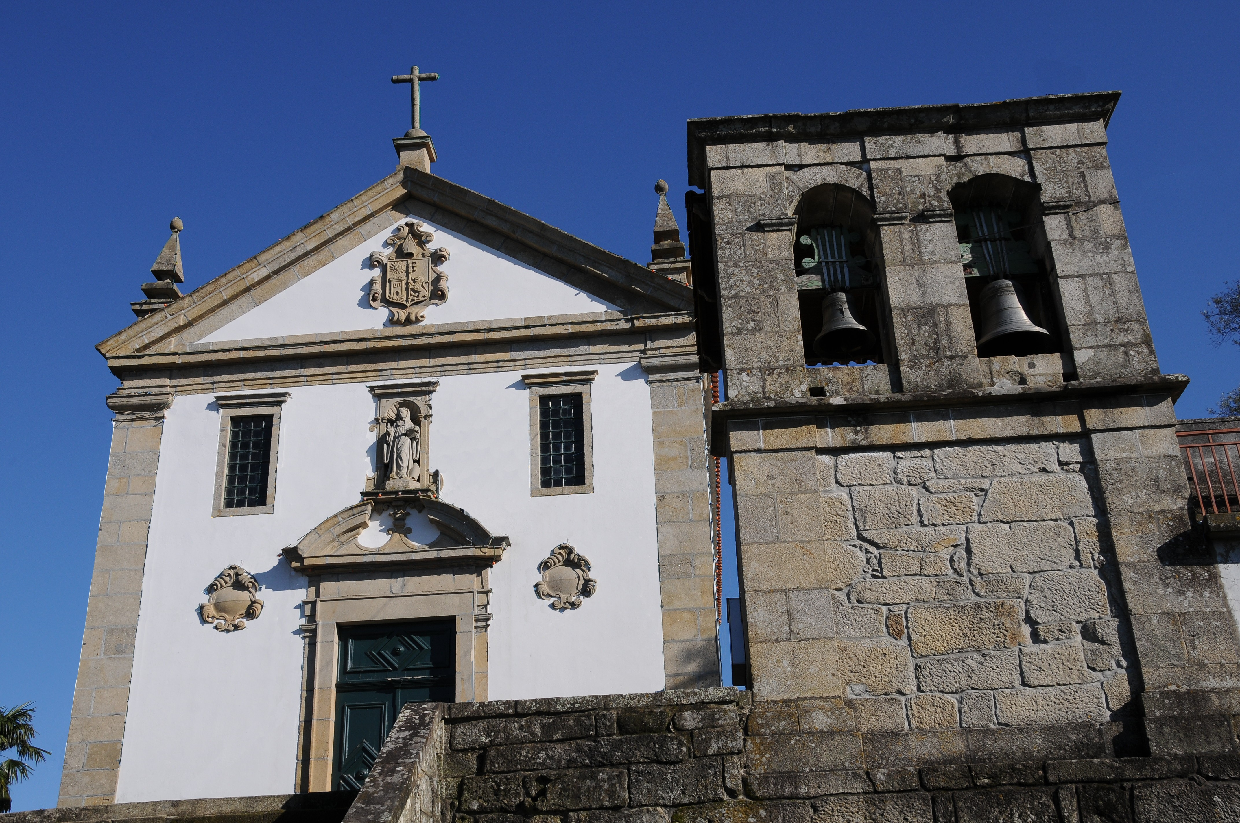 Aguas Santas Church in Povoa de Lanhoso, Portugal